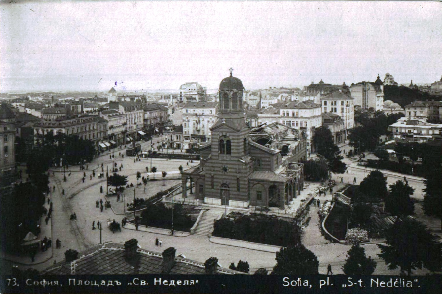 St Nedelya Church after the assault on 16 April 1925, Sofia, Bulgaria.